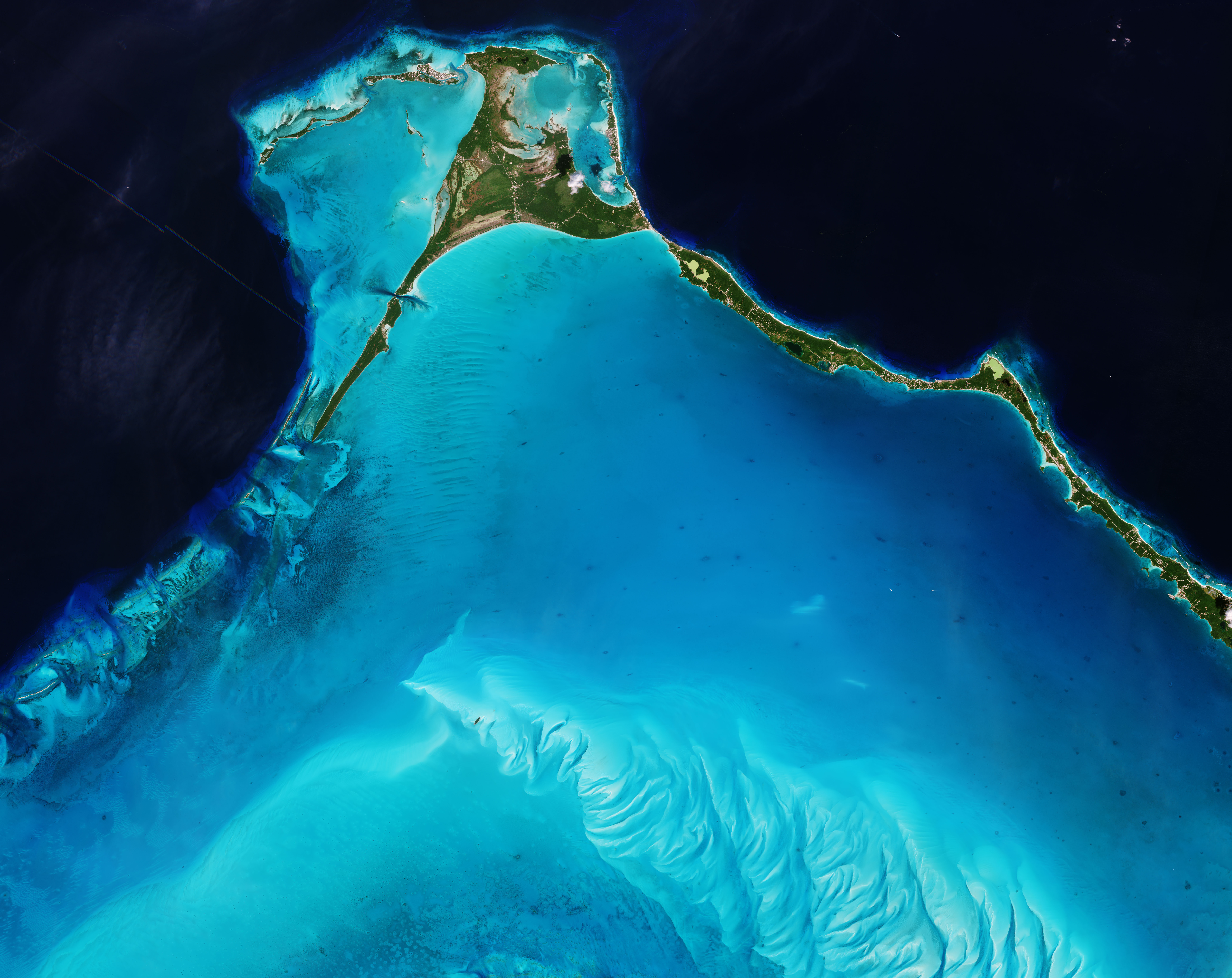 When it comes to eggs, most of us are probably thinking of the chocolate variety that we hope will pass our way this weekend, but they’re difficult to spot from space. Instead, we can offer you this gorgeous Copernicus Sentinel-2B picture of Egg Island in the Bahamas. Covering just 800 sq m, Egg Island is officially an islet. This tiny uninhabited patch is at the northwest end of the long thin chain of islands that form the Eleuthera archipelago, about 70 km from Nassau. Its name perhaps originates from the seabird eggs collected here. The image, which Sentinel-2B captured on 2 February 2018, shows the sharp contrast between the beautiful shallow turquoise waters to the southwest and the deeper darker Atlantic waters to the northeast. Ripples of sand waves created by currents stand out in the shallow waters. These shallow waters are a natural nursery for sea turtles and other sea life. Any disturbance to this delicate ecosystem could spell disaster for wildlife. In fact, Egg Island was recently at risk of being developed as a cruise ship port, which would have meant dredging the seabed and destroying coral reefs. Fortunately, this plan didn't take hold because of the damage it would cause to the environment. This image is also featured on theEarth from Space video programme.